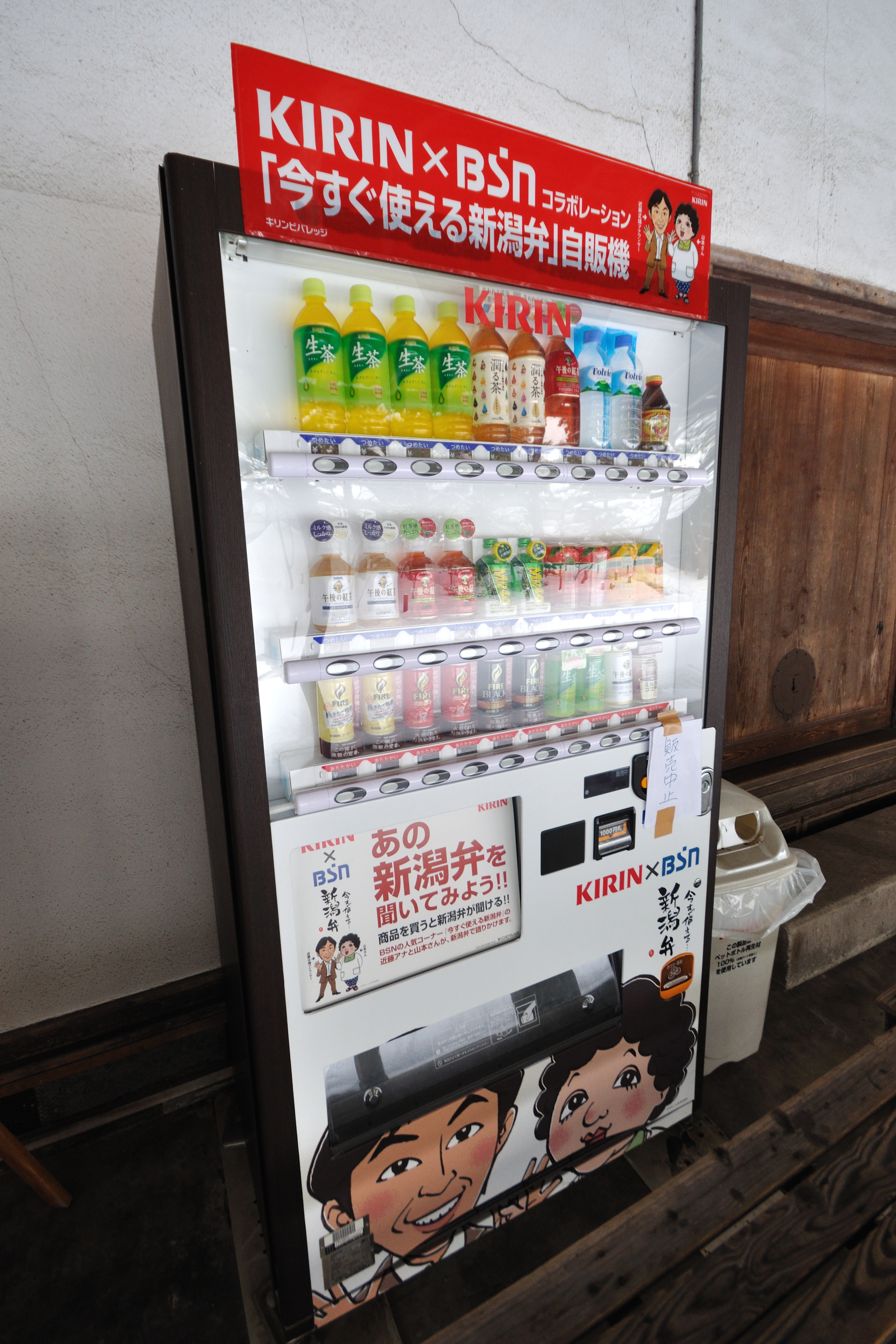 Photograph of Shimzu-en, vending machine, is japanese garden in Shibata City, Niigata Prefecture, Japan.